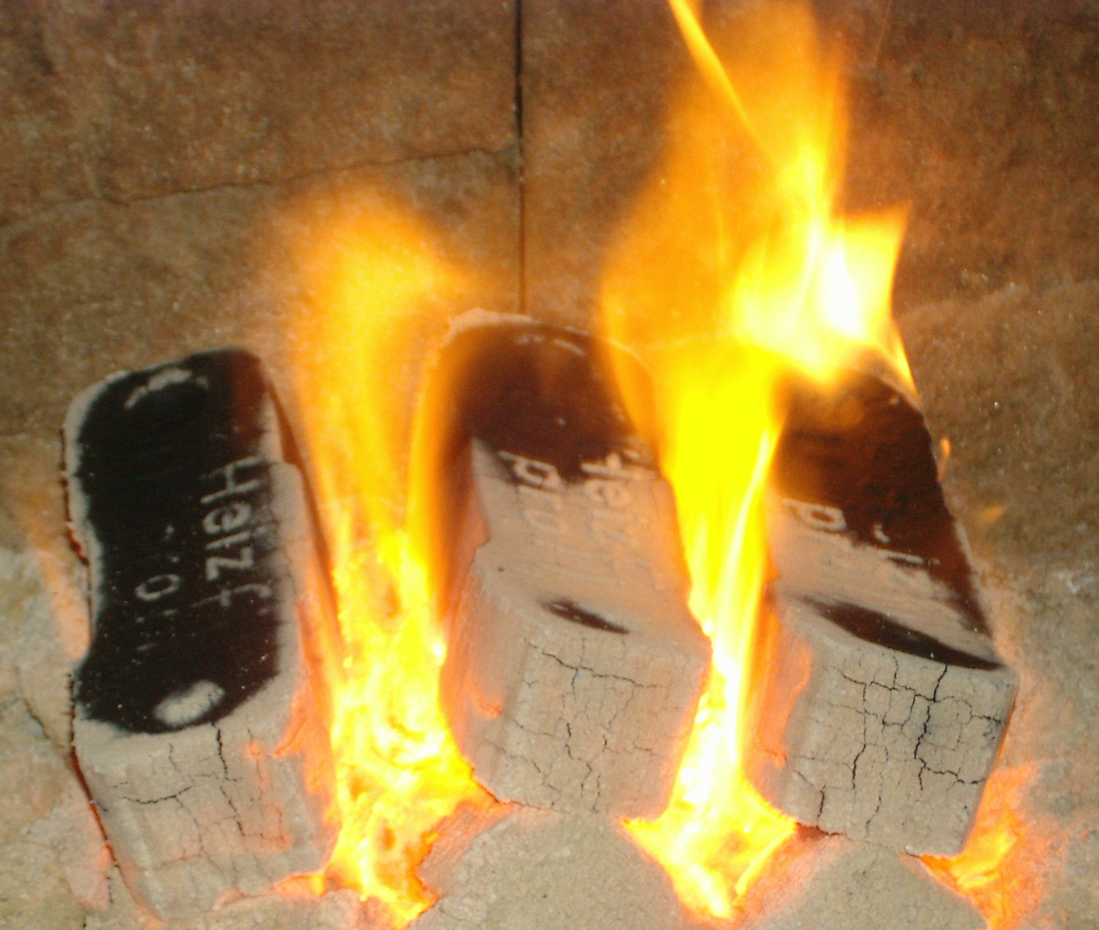 burning lignite biquettes